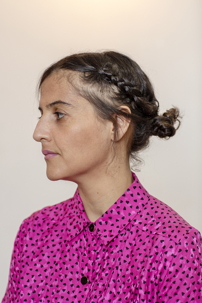 Maria Berrio studio portrait